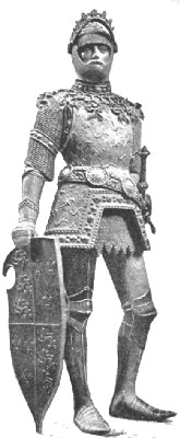 King Arthur from The Book of Knowledge, The Grolier Society, 1911. From Image:Arthur3487.jpg.